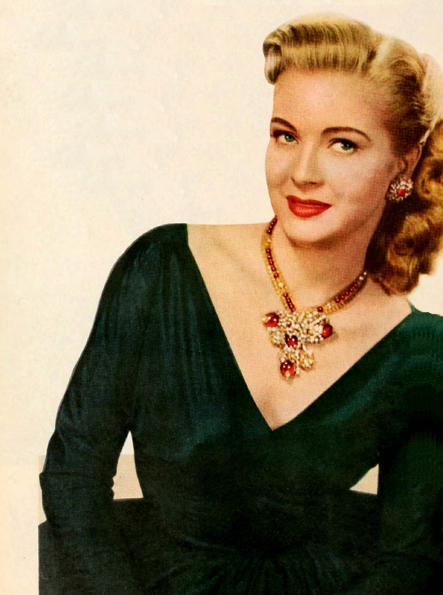 Photo of Lori Nelson from a 1952 Max Factor ad. Nelson was appearing in Ma and Pa Kettle at the Fair at the time. Gown by Anne Fogarty